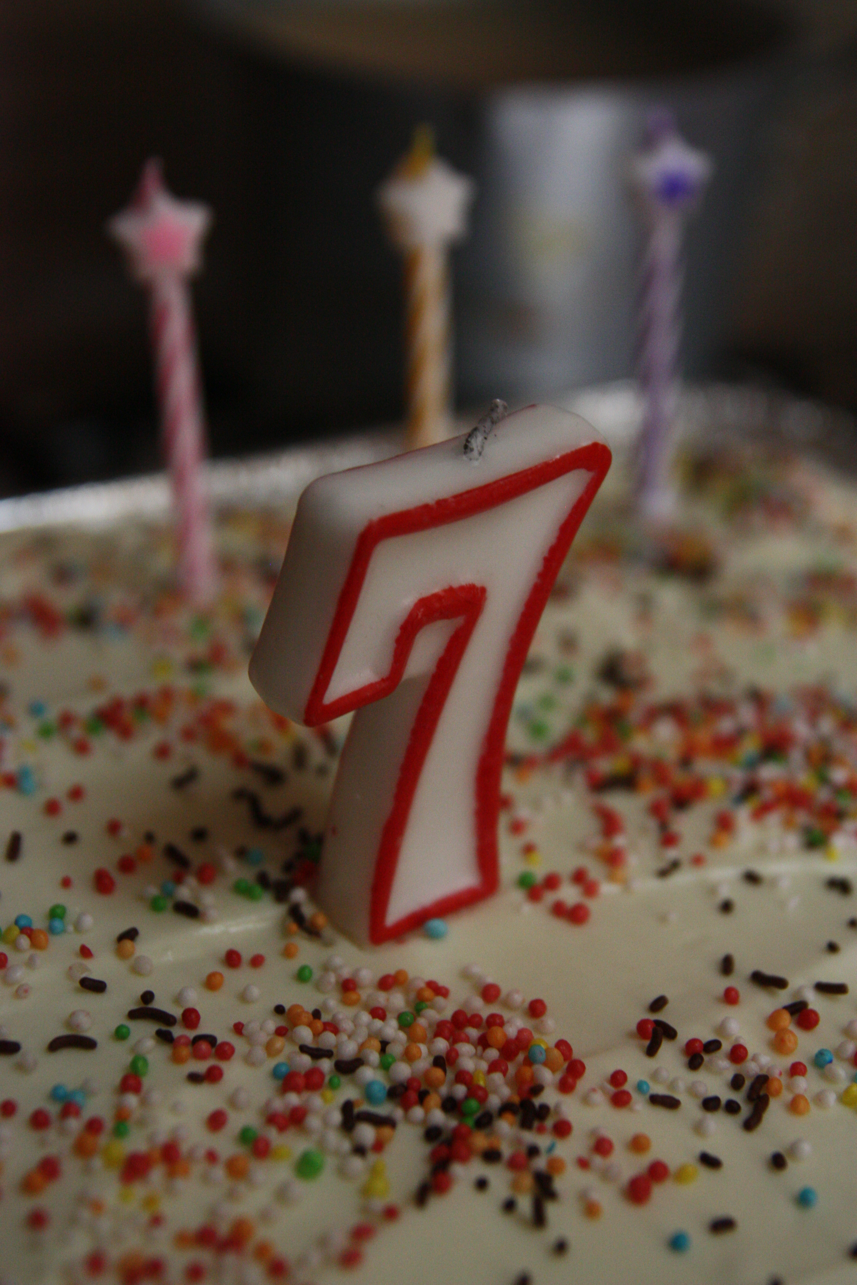 Candle in the form of the number 7 on the birthday cake with white icing and colored candies